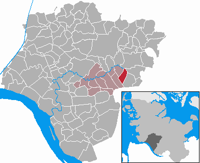 This map shows the area of the municipality Auufer in the Kreis (district) Steinburg, Schleswig-Holstein, Germany.